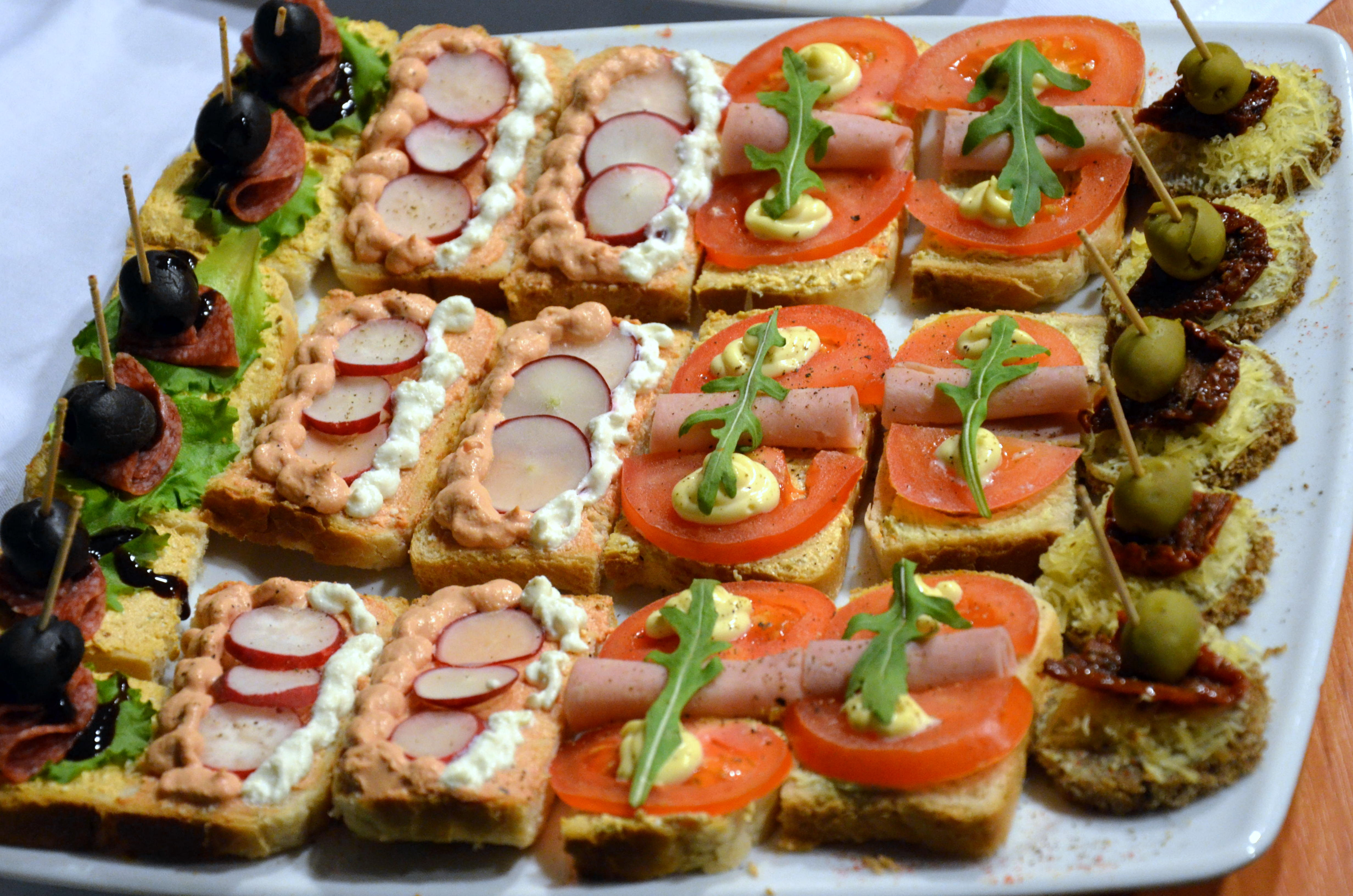 Canapés